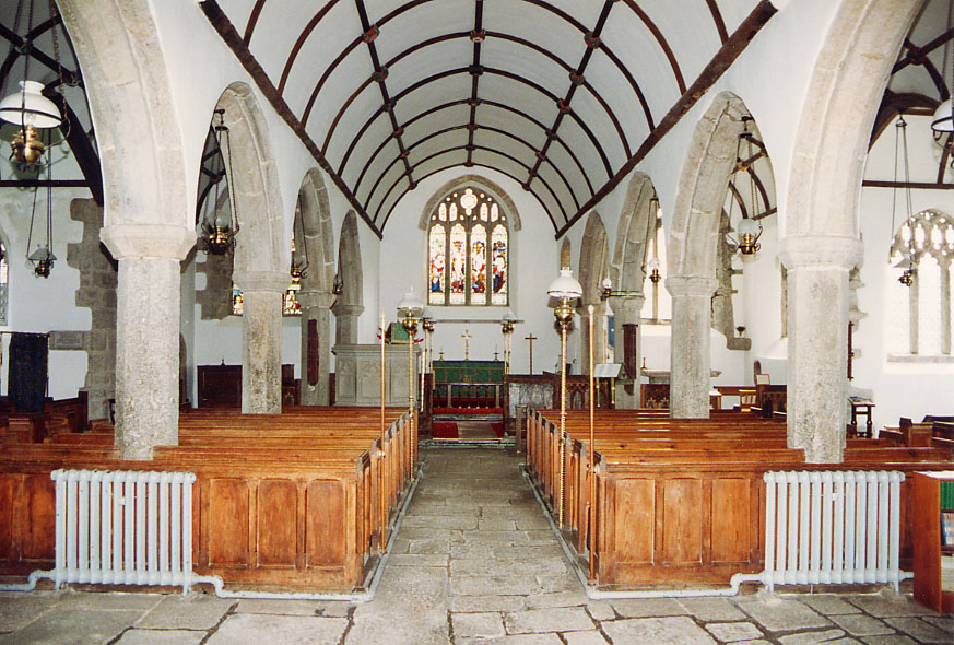 St Pancras, Widecombe in the Moor, Devon - East end